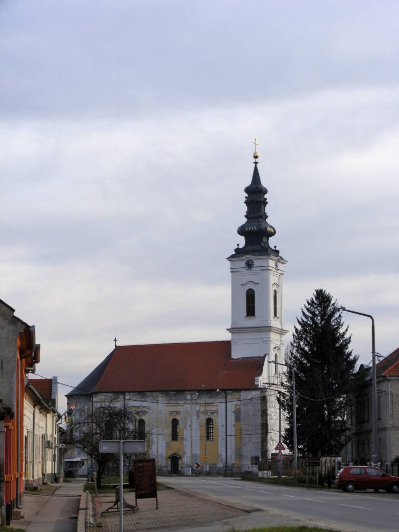 Crkva sv.Dimitrija u Dalju